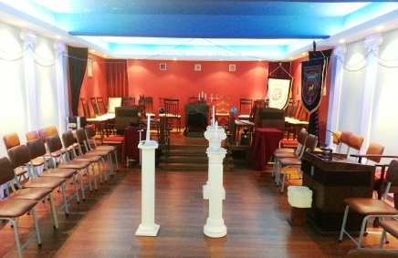 Photo taken Jan 11, 2013, this image shows the interior of the Masonic Lodge Hall in Limassol, Cyprus. Grand Lodge of Cyprus.